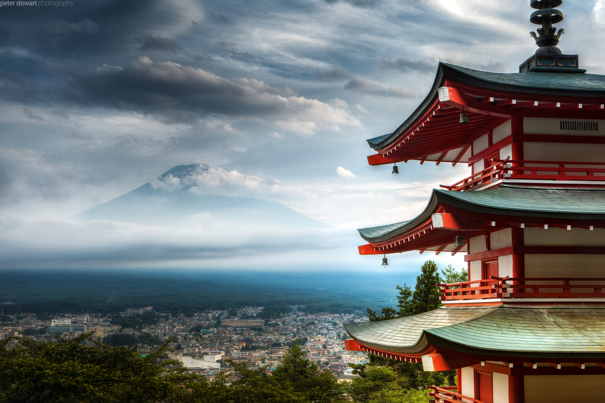 Chūrei-tō pagoda and clouded Mount Fuji from the Arakurayama Sengen Park, Fujiyoshida, Yamanashi, central Japan.